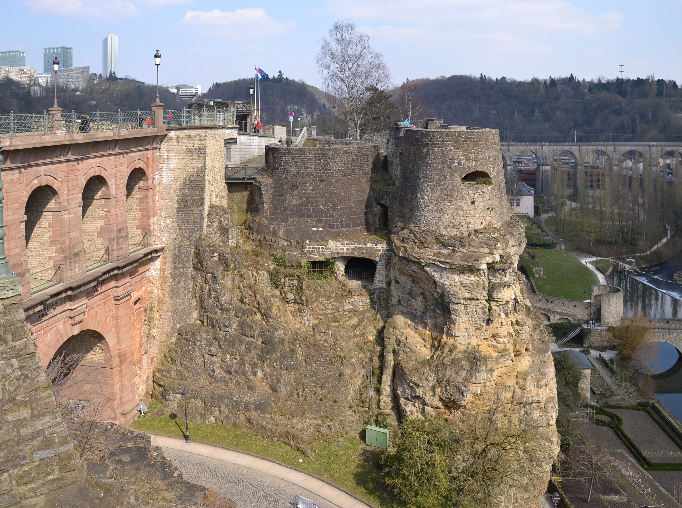 Bockfiels and Schlassbréck, Luxembourg City